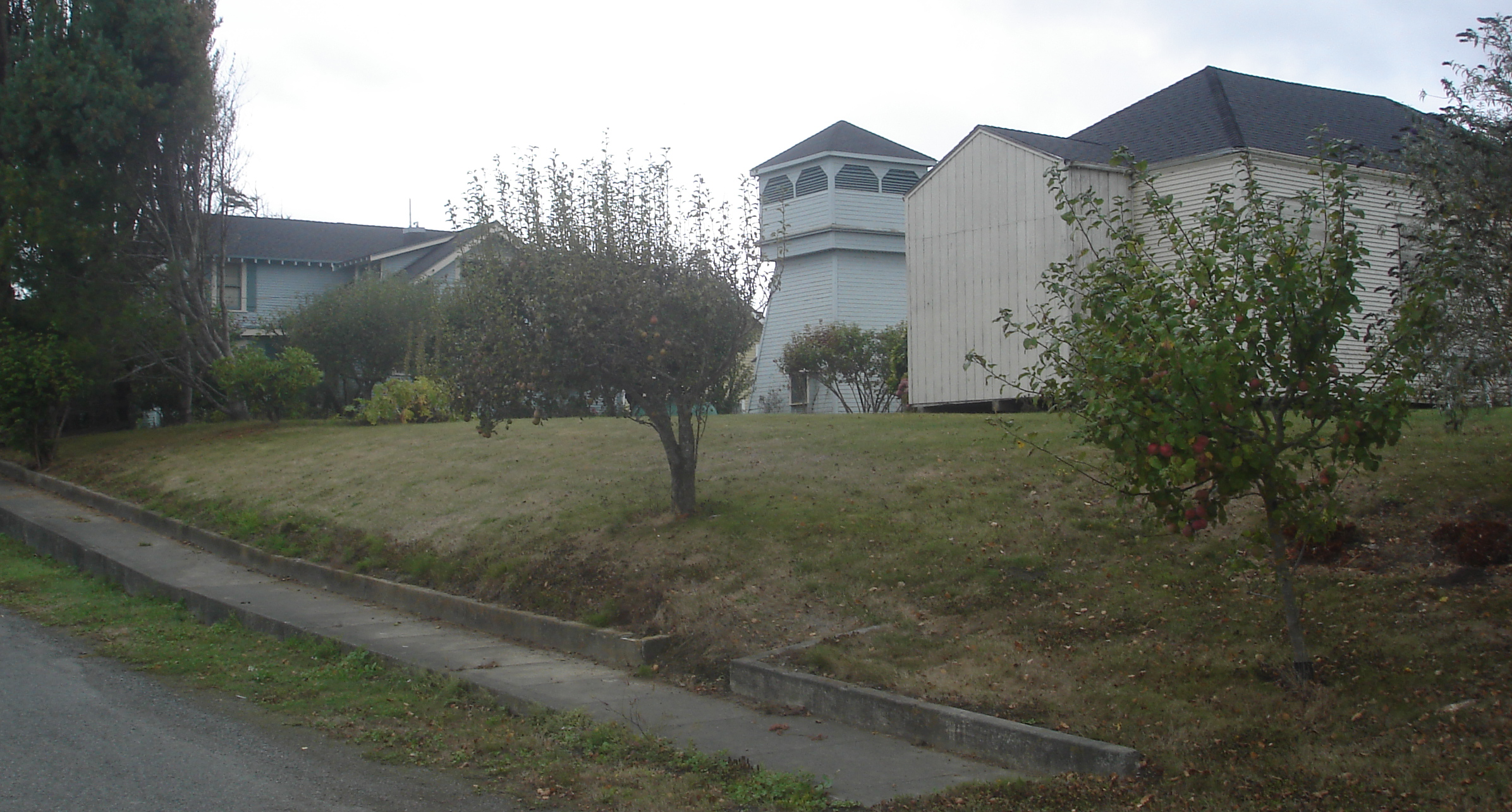 Remains of chapel formerly part of hotel in the company town of Metropolitan, California